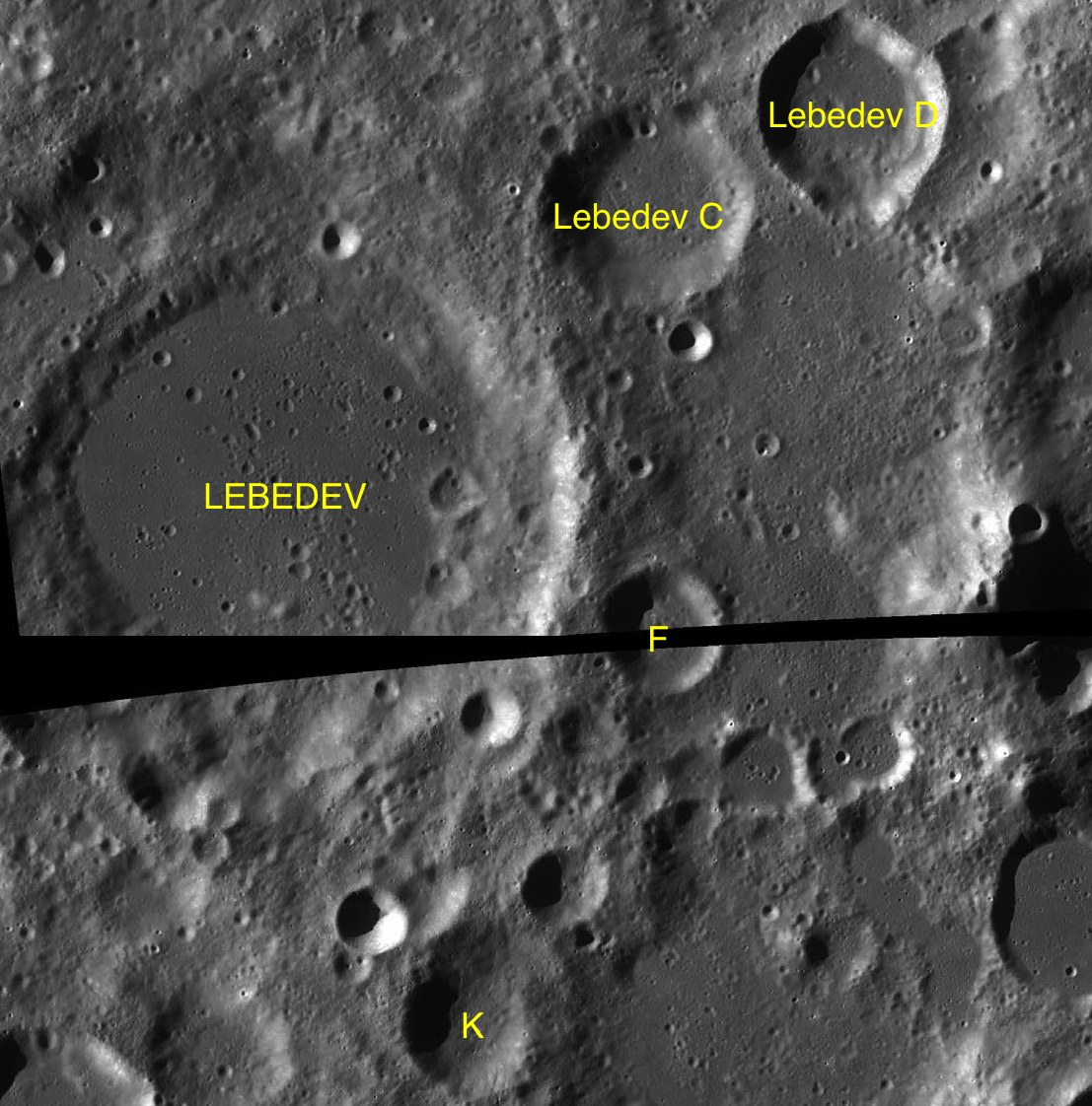 Parts of the charts LAC-117, LAC-130 used for the presentation